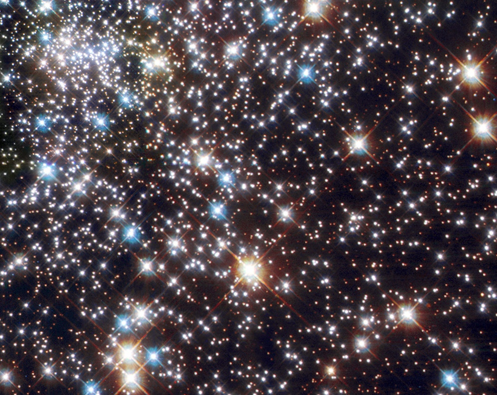 Image of NGC 6397 taken by the Hubble Space Telescope, with evidence of a number of blue stragglers. APOD 2002 February 20